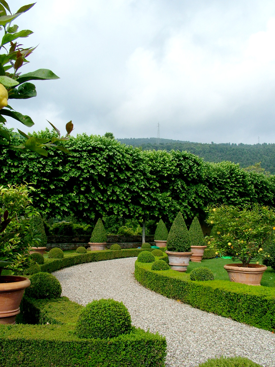 see above